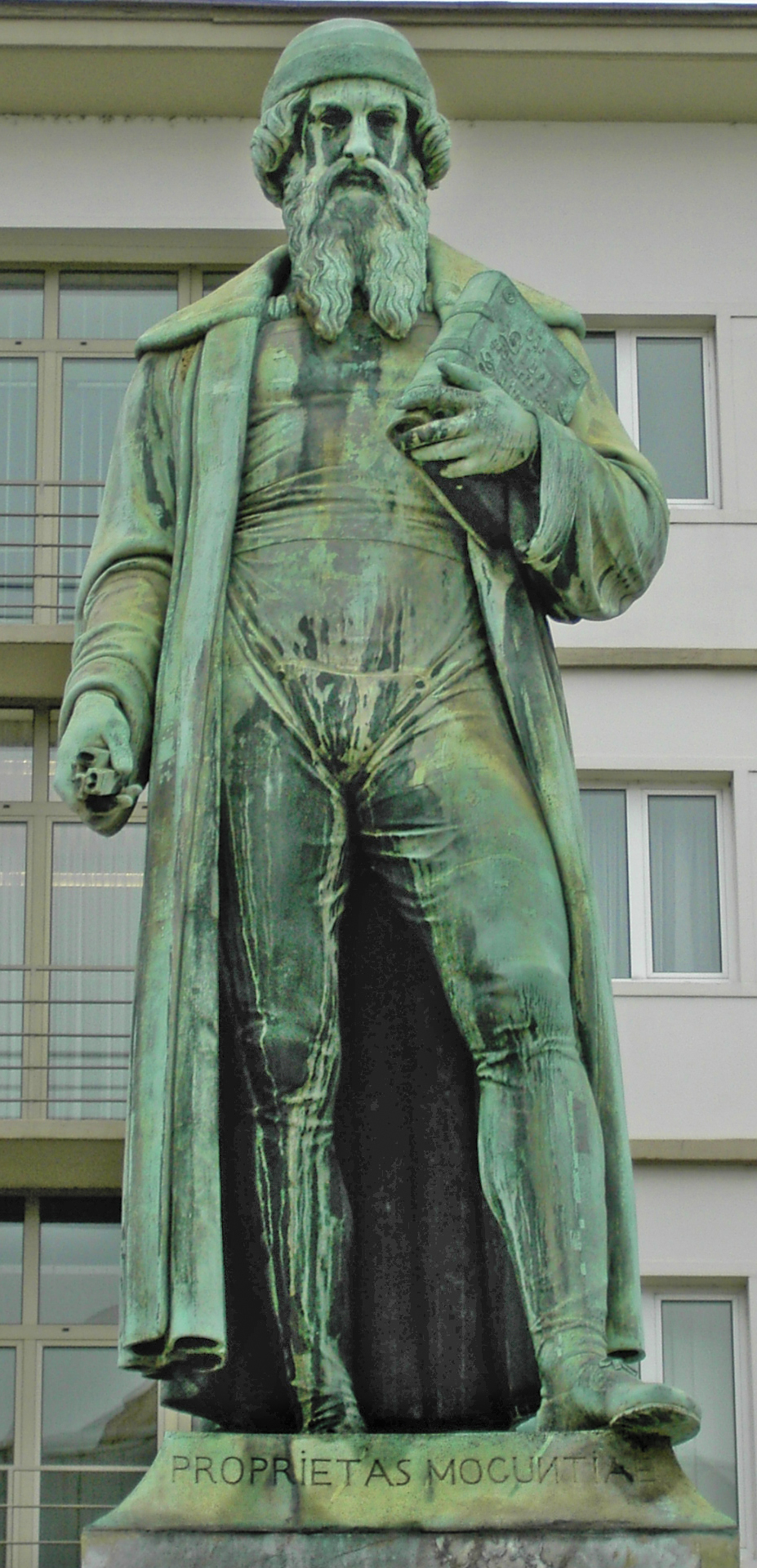 picture of Gutenberg monument in Mainz